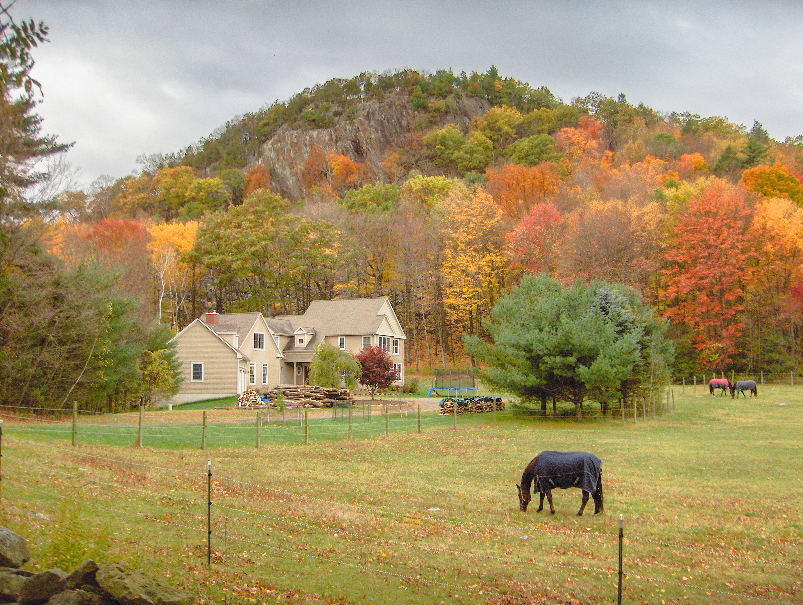 There are two Barndoor Hills, Western Barndoor Hill and Eastern Barndoor Hill ( This is a view of Western Barndoor Hill, taken from Barndoor Hills road, looking slightly south of west.